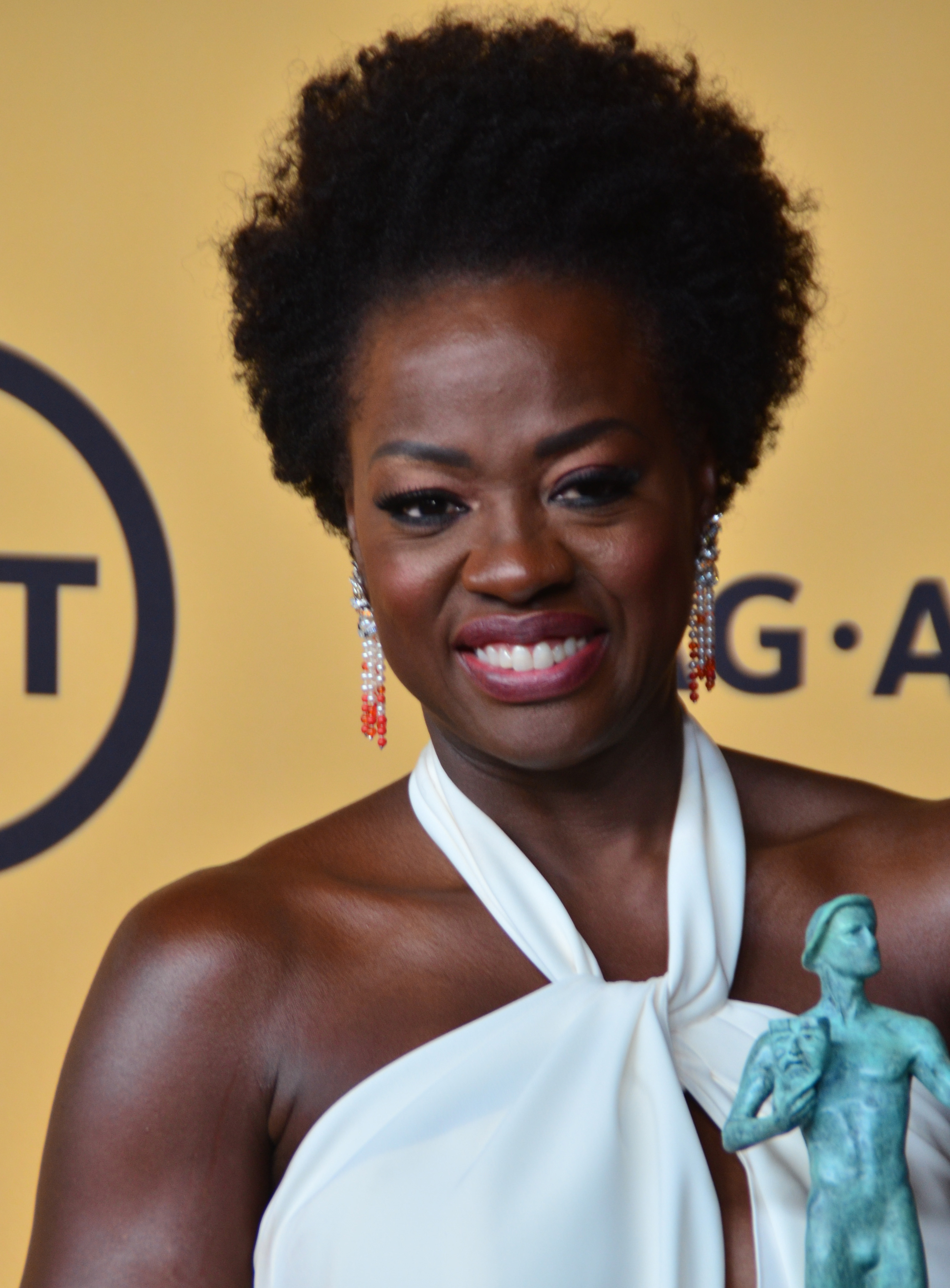 Viola Davis (cropped)